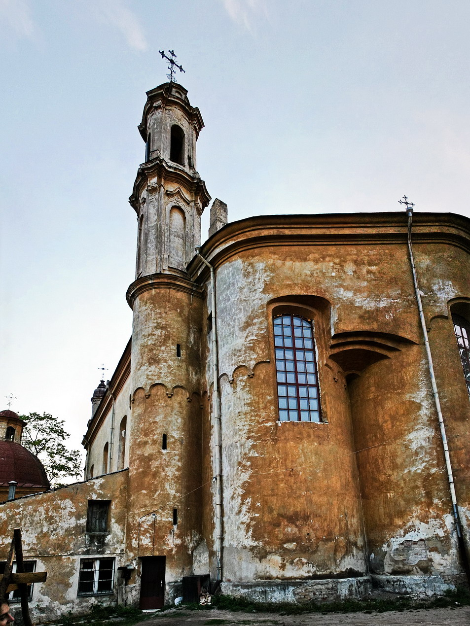 Holy Trinity Greek Orthodox church